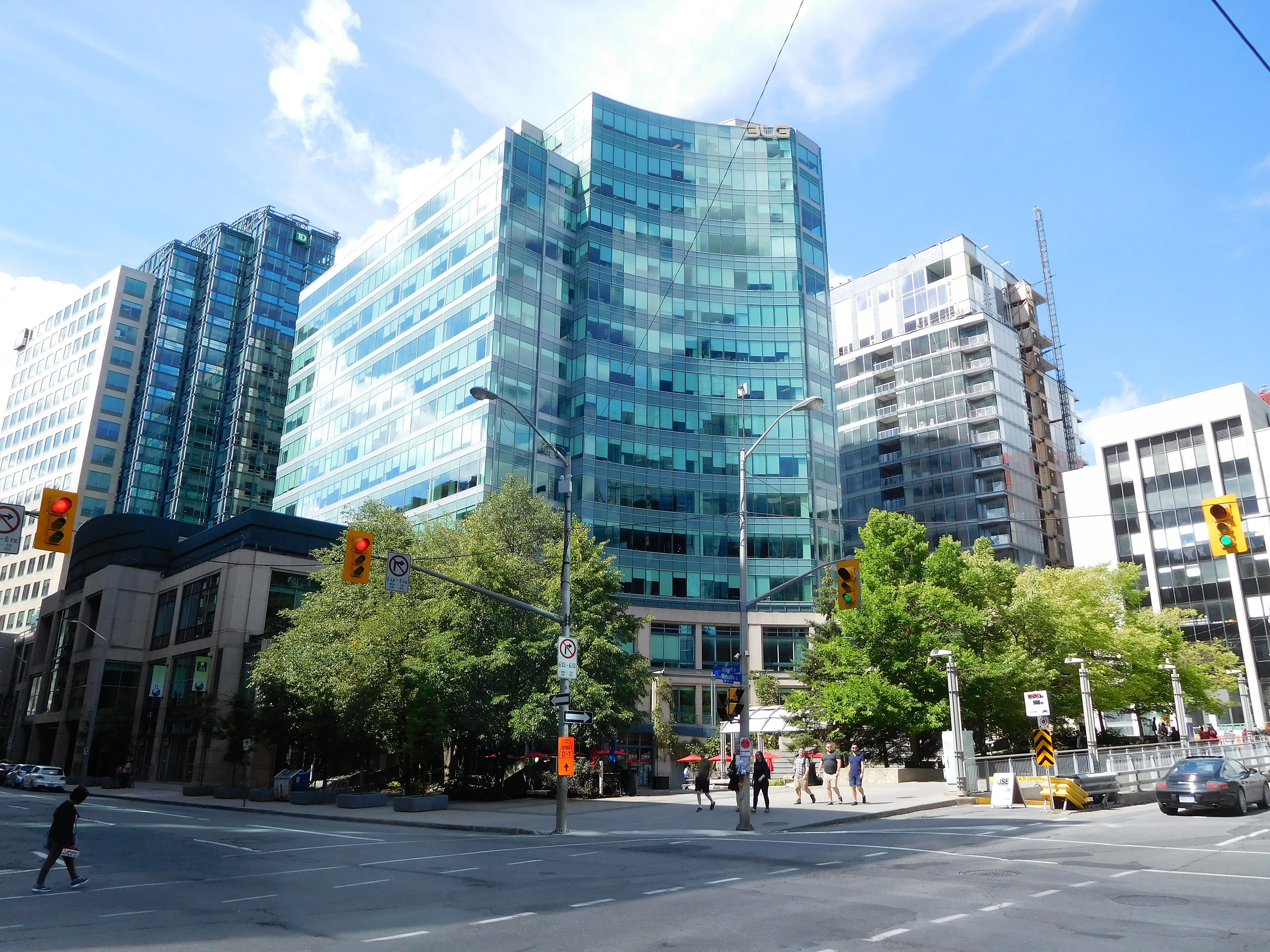 World Exchange Plaza Tower II, at the corner of Albert Street and Metcalfe, Ottawa